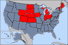 USA elections 1944 results, corrected map